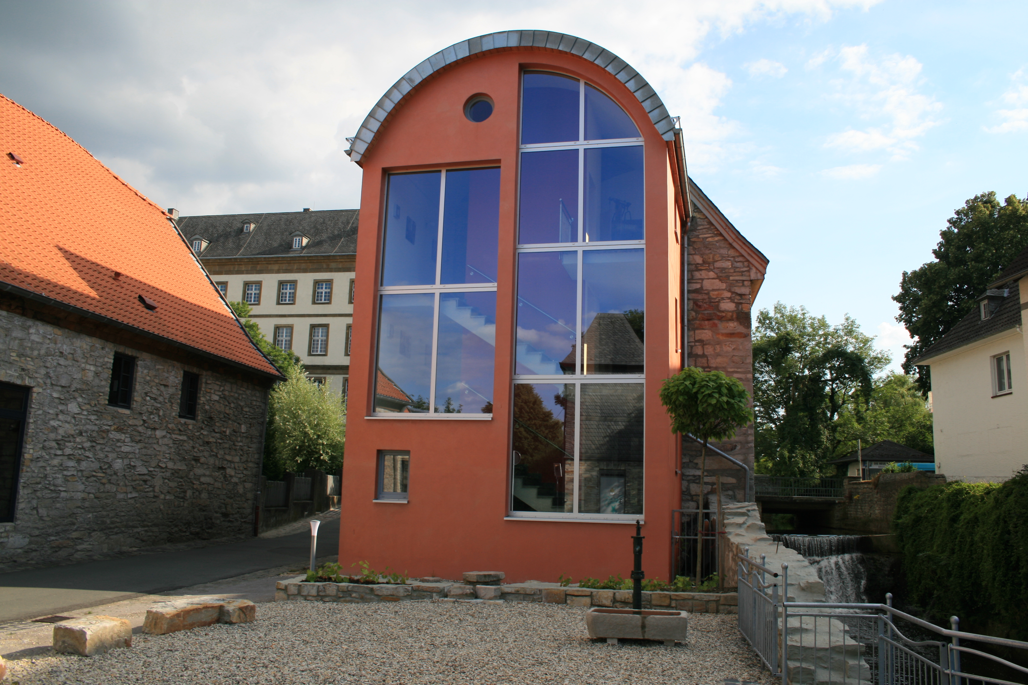 Niedermill in summer 2008